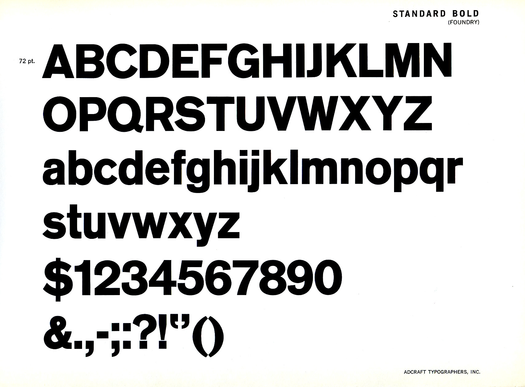 Specimen of metal Akzidenz-Grotesk. This typeface was sold as “Standard” in the United States.